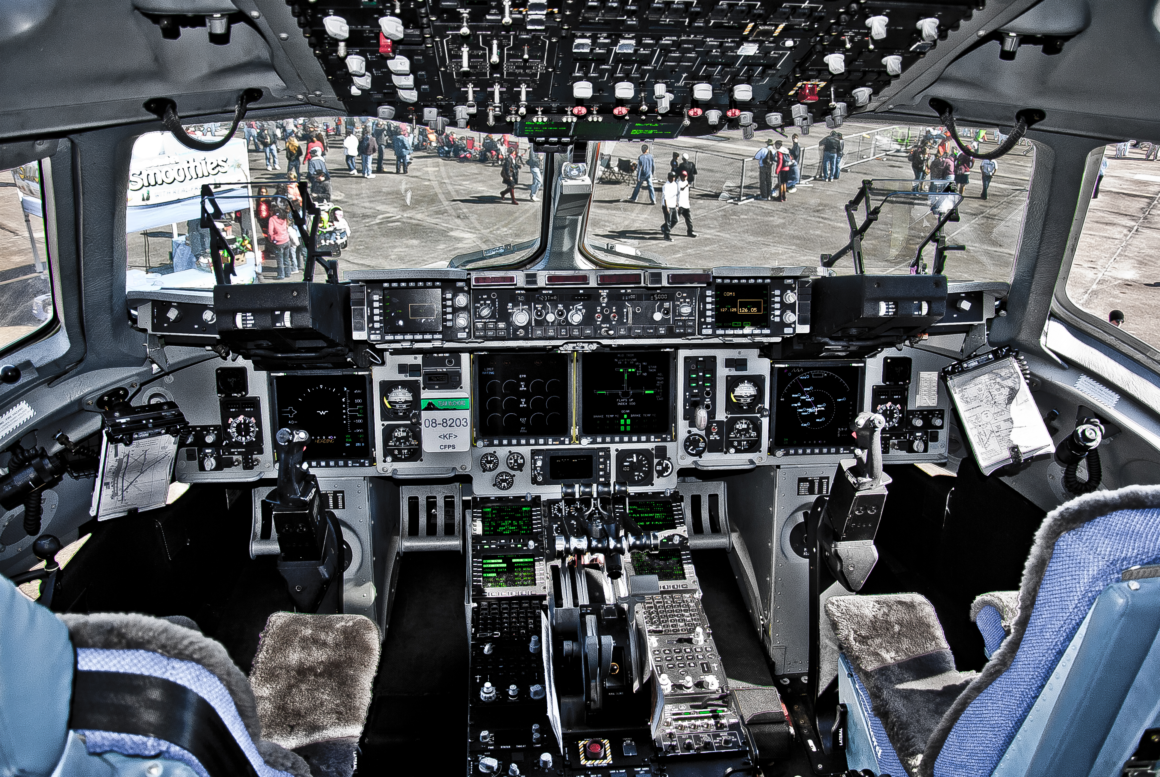 C-17 Globemaster III cockpit at Wings Over Houston air show